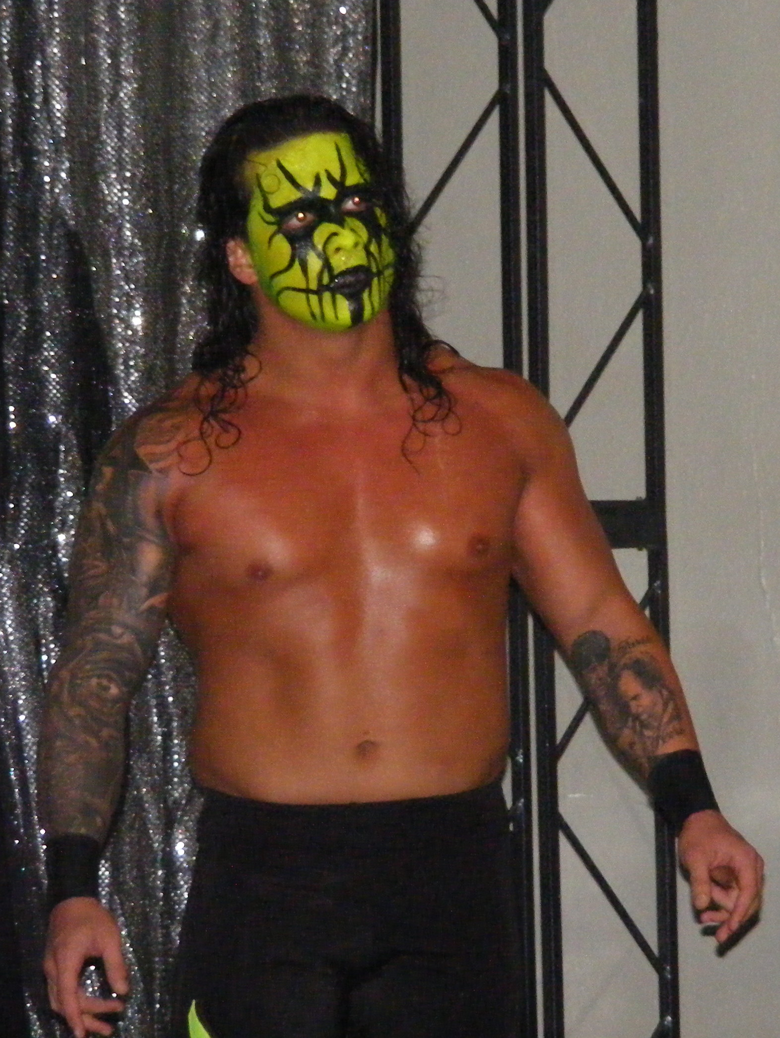 Professional wrestler Obariyon at a Chikara event.